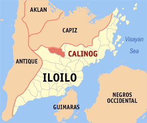 Map of Iloilo showing the location of Calinog